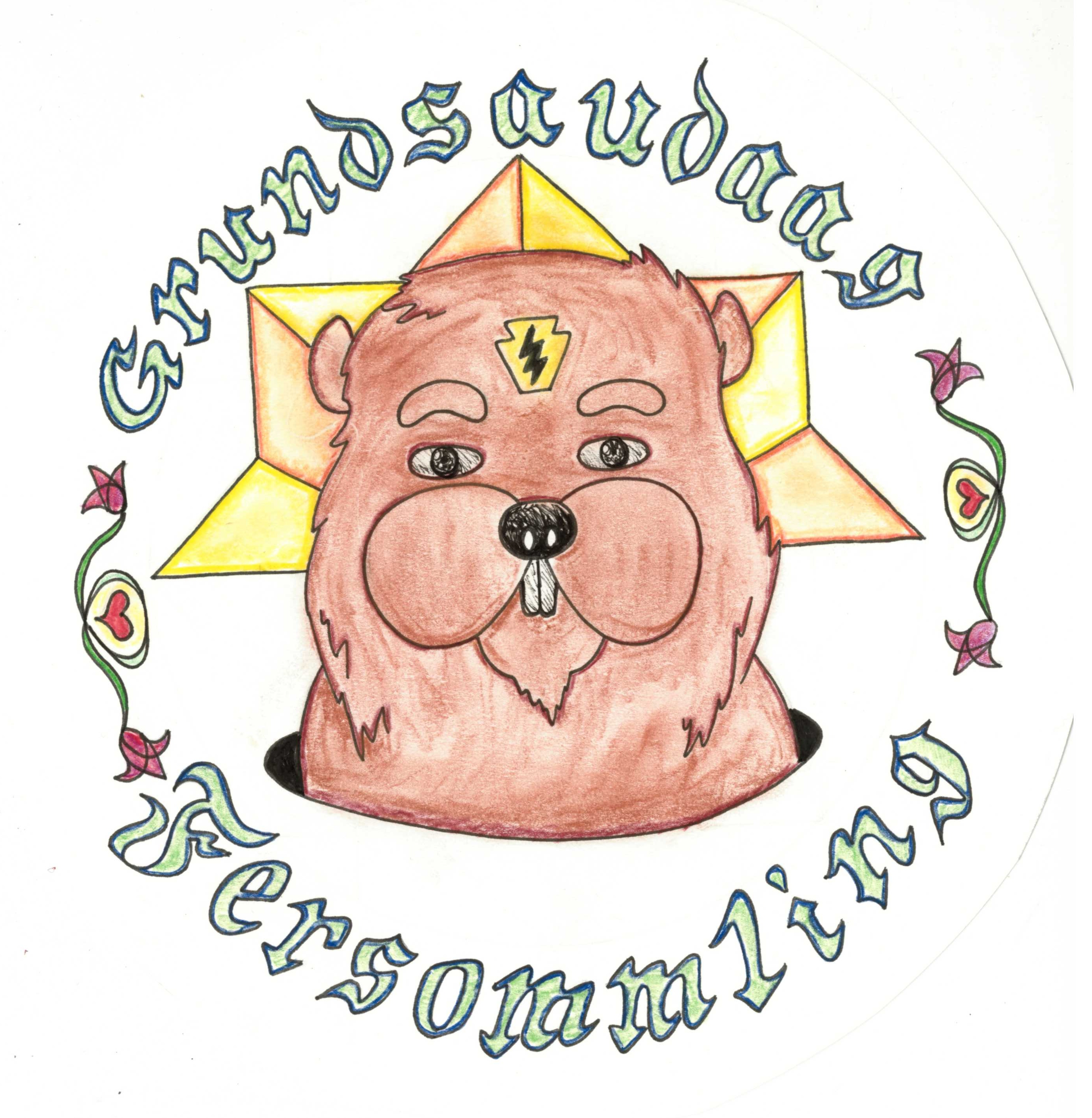 This 2017 Fersommling artwork includes traditional Pennsylvania German folk art motifs, Fraktur lettering, and Groundhog with Keystone emblem.